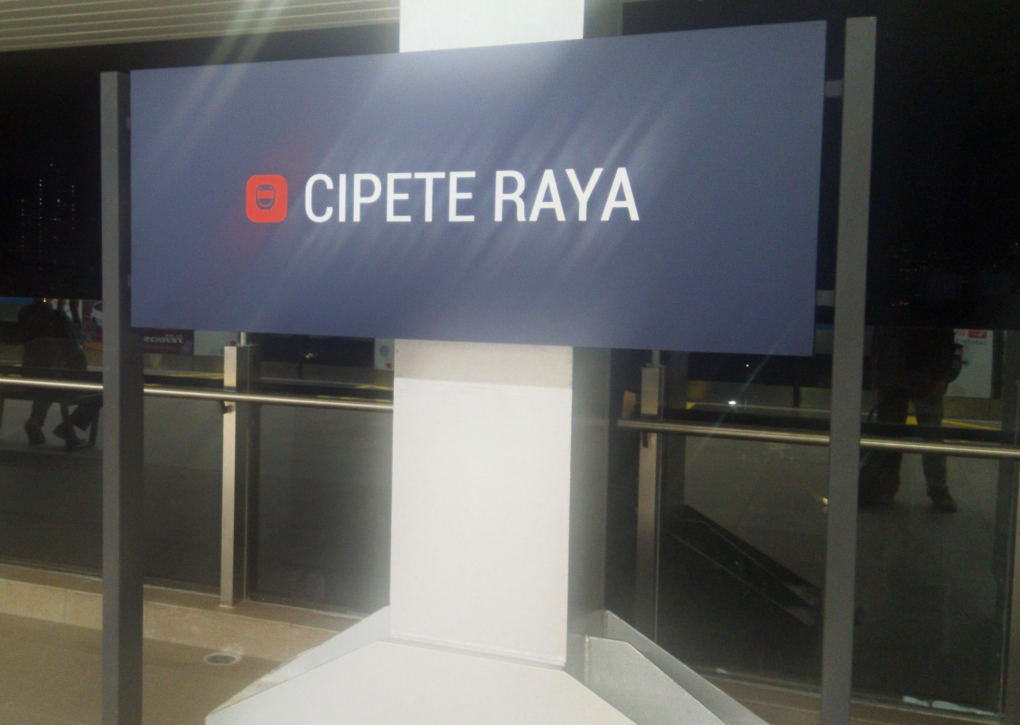 Jakarta MRT Cipete Raya MRT Station signage